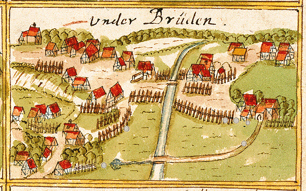 View of Unterbrüden, Auenwald, from the forest register books created by Andreas Kieser